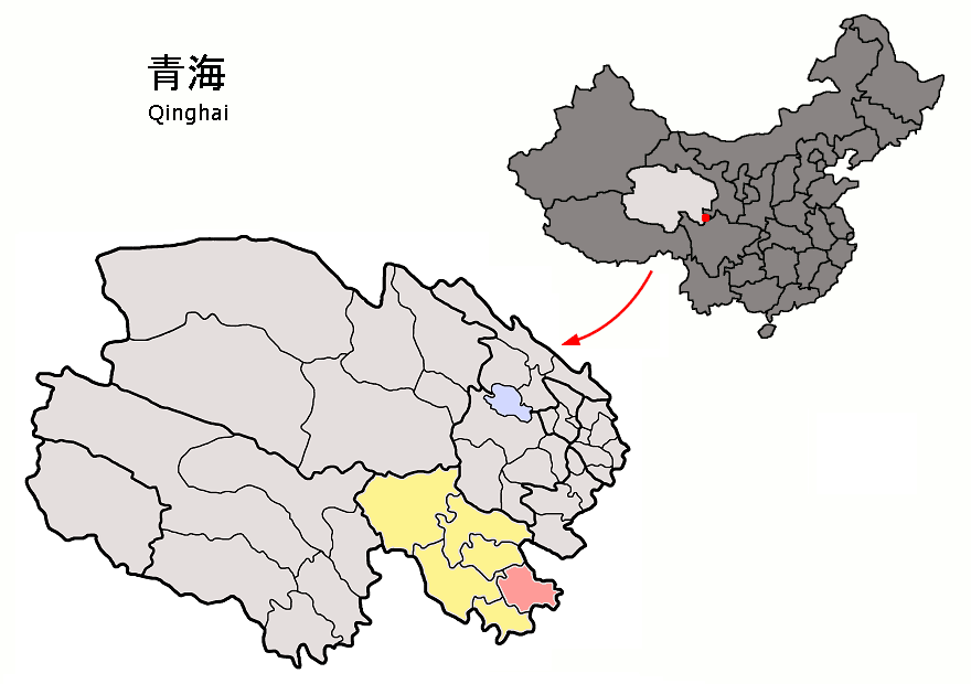 Location of Jigzhi County (pink) and Golog Prefecture (yellow) within Qinghai province of China Map drawn in september 2007 using various sources, mainly : Qinghai province administrative regions GIS data: 1:1M, County level, 1990 Qinghai Counties map from "Plateau Perspectives" (the limits of some county-level subdivisions may not be accurate)